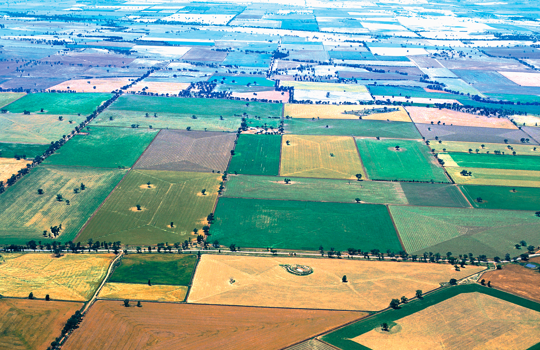 Aerial view of mixed crops at Coolamon, NSW. 1999.